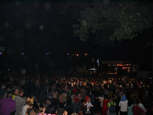 Cultural Summer of Zvornik 2007.